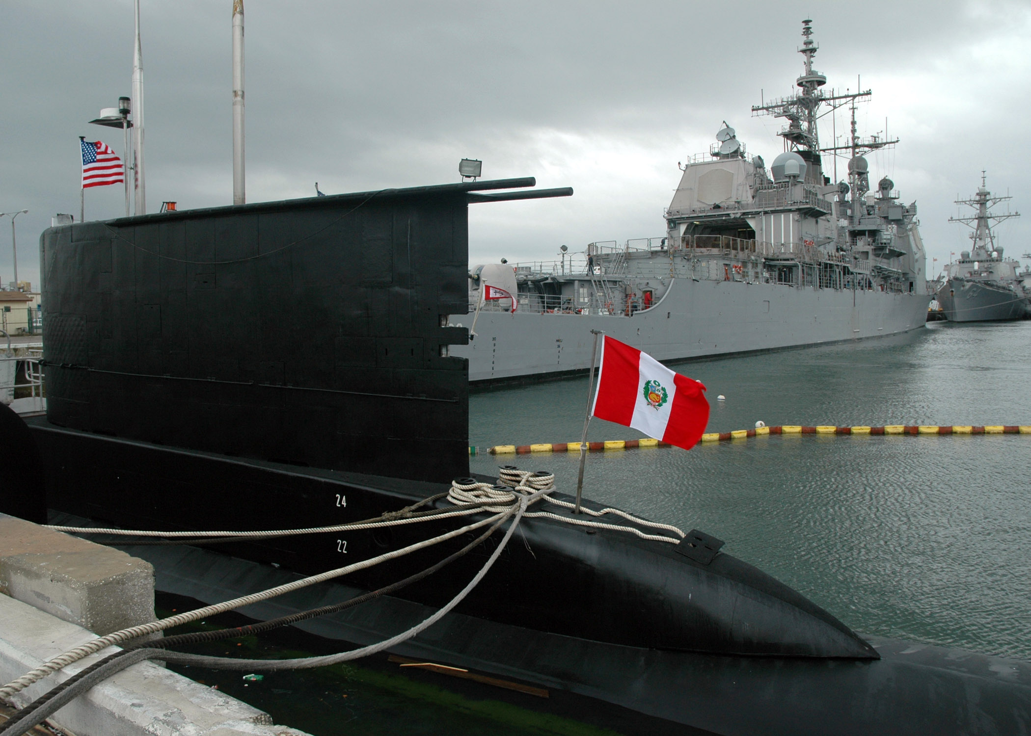 MAYPORT, Fla. (May 9, 2007) - Peruvian navy submarine Chipana (SS-34) is currently moored at Mayport Naval Station while the crew enjoys some liberty before continuing their part in Submarine Diesel Exercise (SUBDIEX) 2007. SUBDIEX 07 is a bi-lateral, U.S. and Peruvian exercise in support of the Diesel Electric Submarine Initiative. Peru has participated annually since 2002 and participates in training for U.S. ships in anti-submarine warfare. U.S. Navy photo by Mass Communication Specialist 2nd Class Leah Stiles (RELEASED)